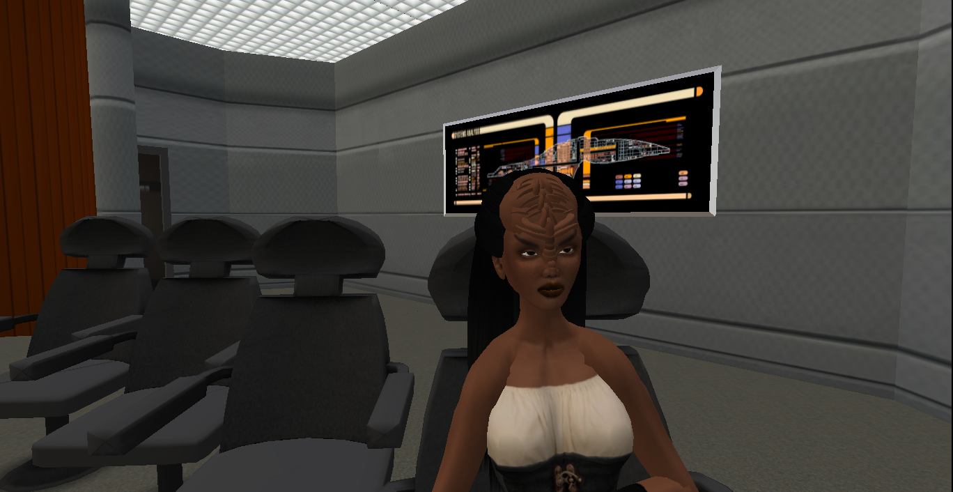 A klingon female aboard the spaceship USS Eclipse in Second Life.